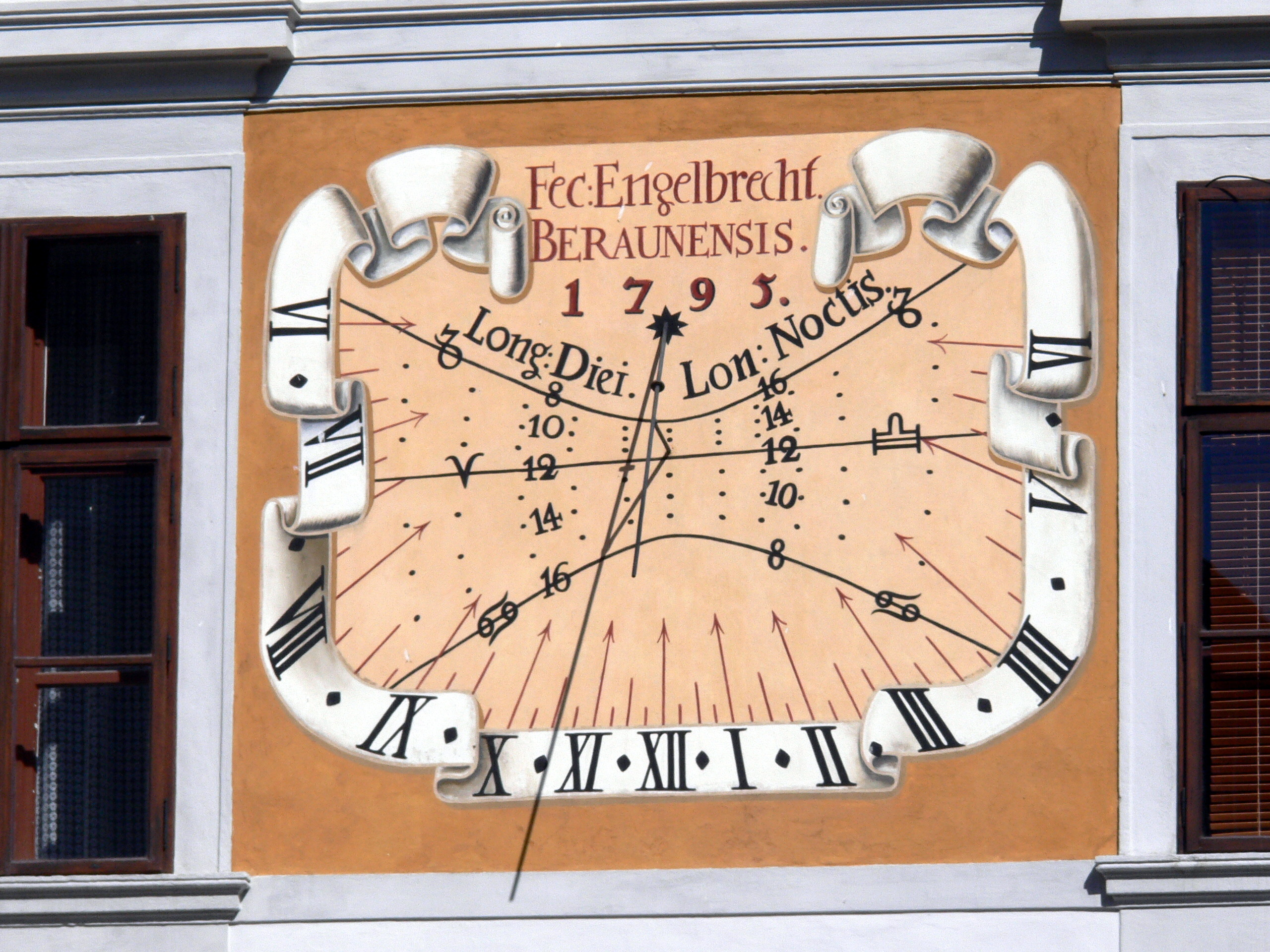 Třeboň castle. Inner courtyard: Sundial made by Engelbrecht Beraunensis ( 1795 )